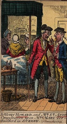 The Doctors Nathaniel St. André and John Howard visiting the "rabbit-breeder" Mary Toft